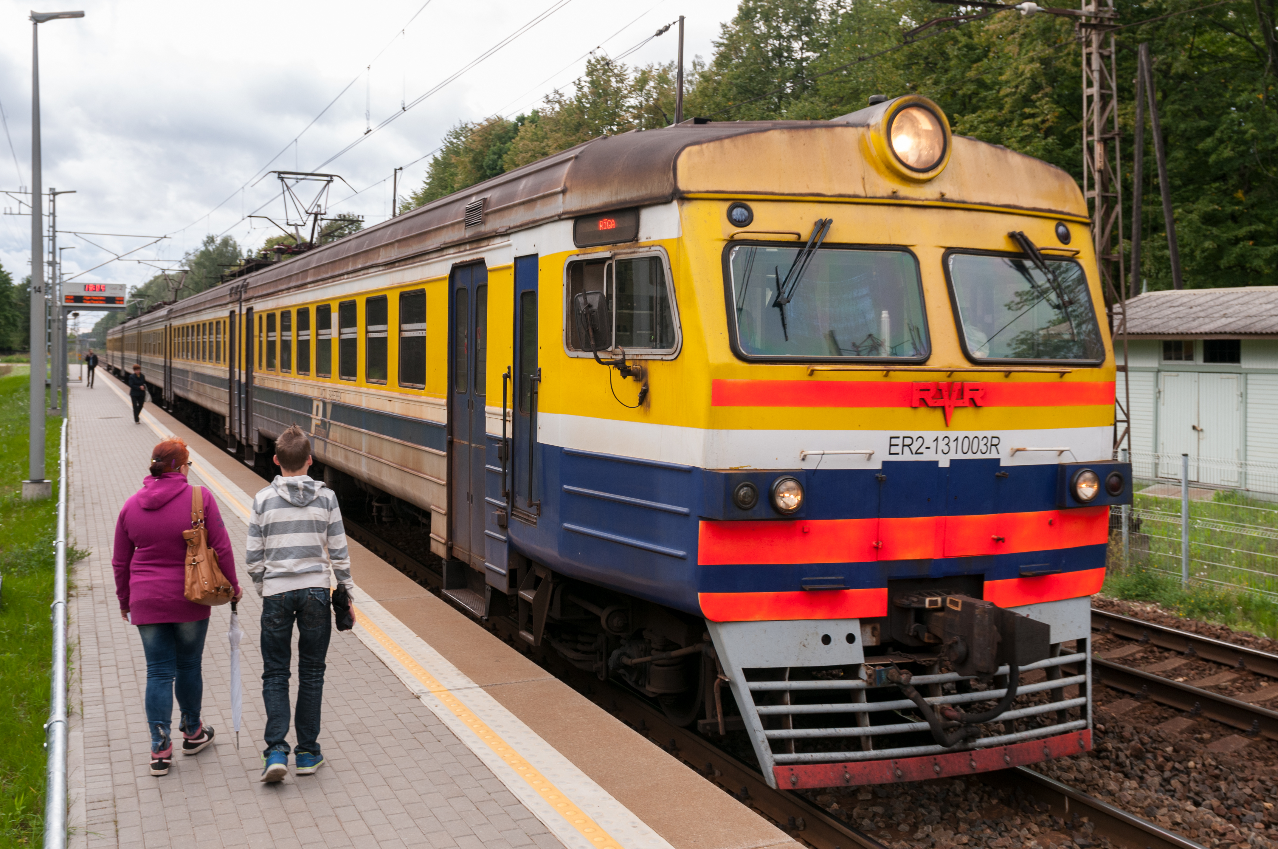 Babīte railway station in Riga, Latvia